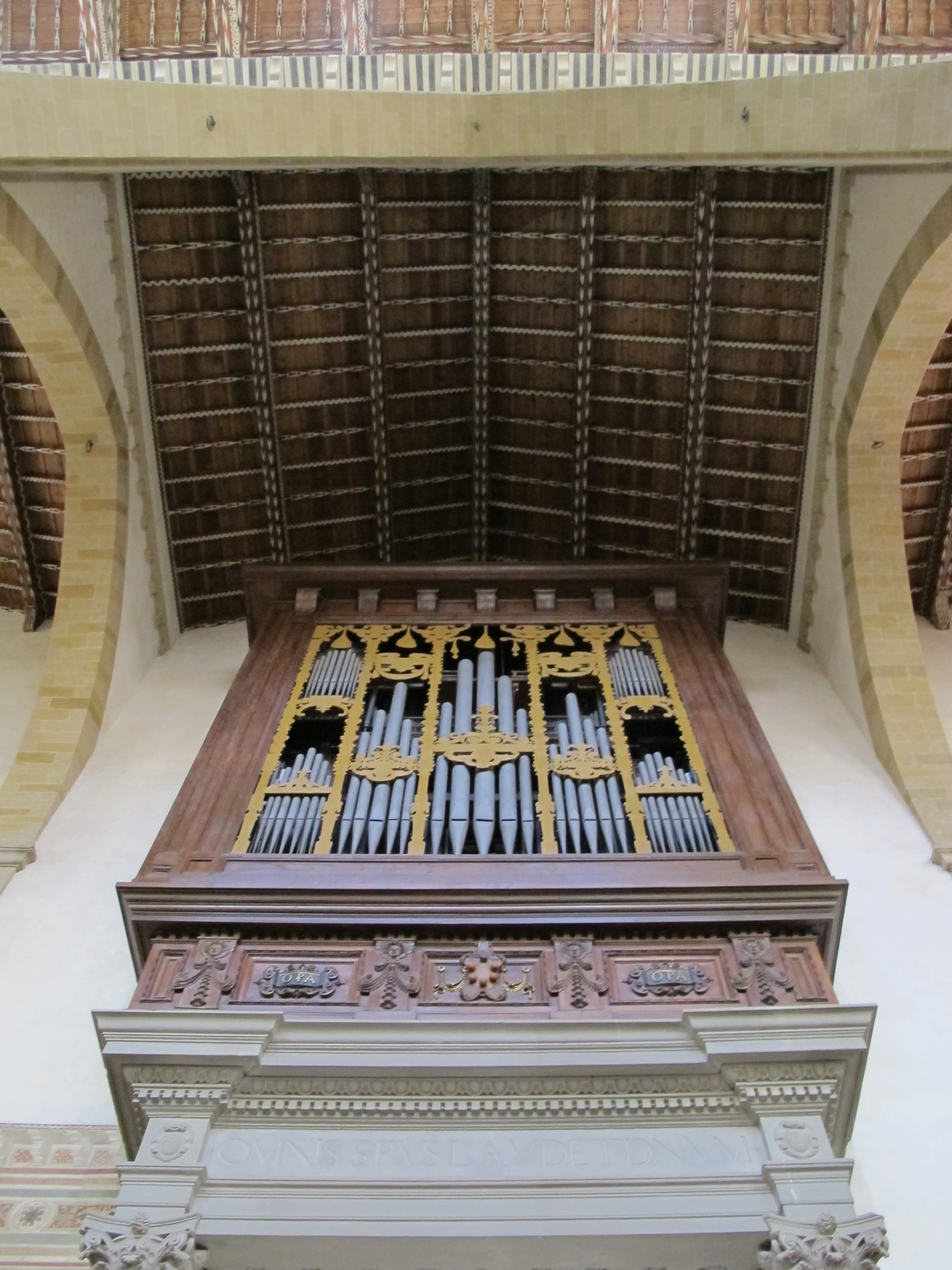 S. croce, organo